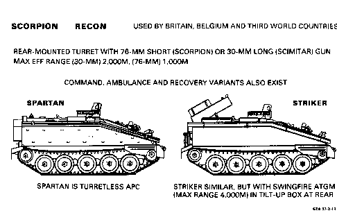 Scorpion or CVR(T)